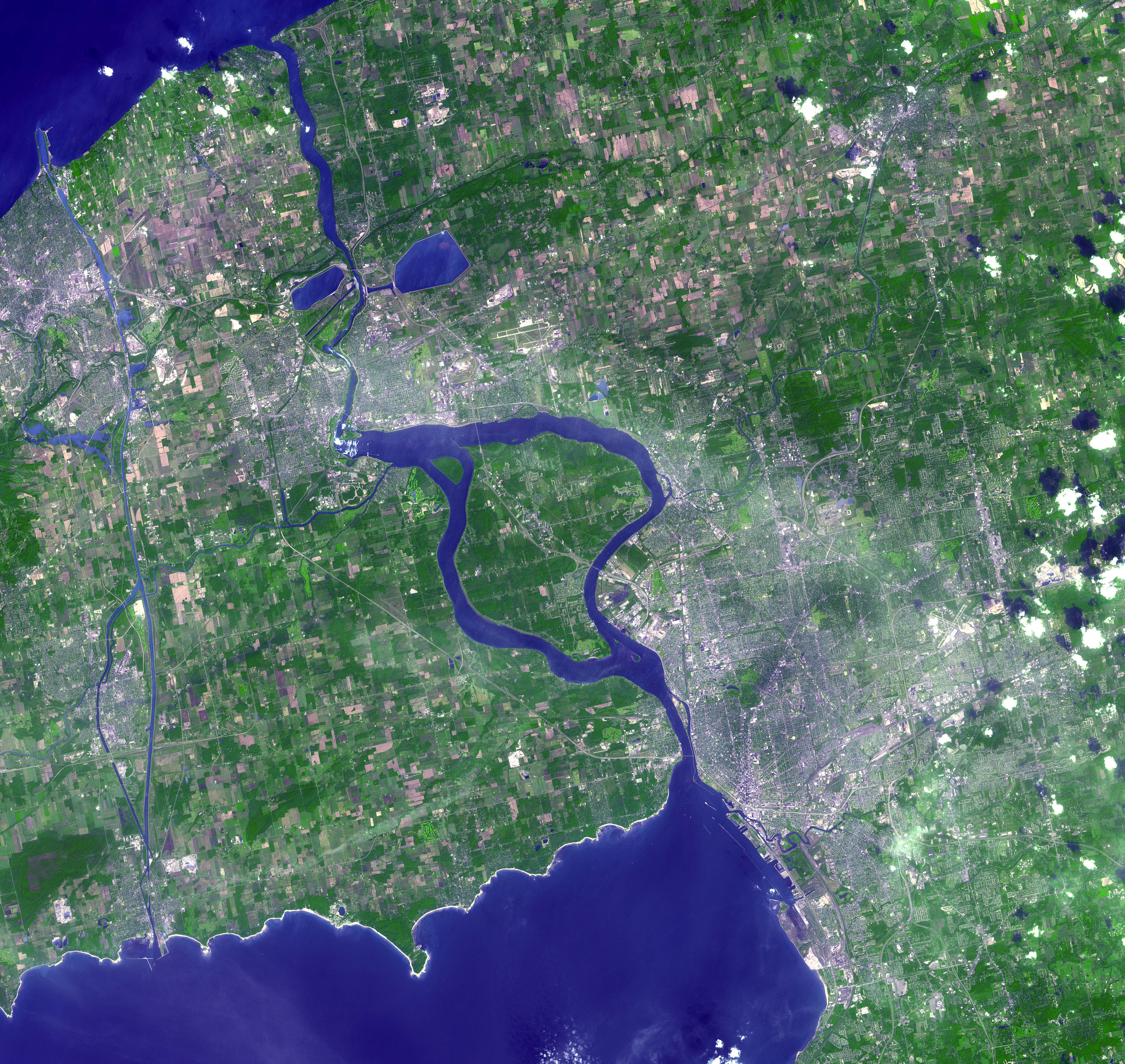 The Niagara River (a Native American word for at the neck), linking Lake Erie and Lake Ontario, flows around Goat Island, and then plummets over Horseshoe and American Falls, better known as Niagara Falls. The port city of Buffalo, New York is located at the northeast corner of Lake Erie where the river first leaves the lake. The image also includes the infamous Love Canal. In the late 1970s and early 1980s, as a result of chemical wastes having been dumped in the area of the Love Canal from 1947 to 1952, the area was evacuated. In 1990, after a 12-year cleanup effort, the federal government declared parts of the area habitable and reopened those areas. This image was acquired on September 8, 2001 by the Advanced Spaceborne Thermal Emission and Reflection Radiometer (ASTER) on NASA's Terra satellite. With its 14 spectral bands from the visible to the thermal infrared wavelength region, and its high spatial resolution of 15 to 90 meters (about 50 to 300 feet), ASTER images Earth to map and monitor the changing surface of our planet. Size: 56.4 x 53.4 km (35.0 x 33.1 miles) Location: 43.0 deg. North lat., 78.9 deg. West long. Orientation: North at top Image Data: green, red, near-infrared Original Data Resolution: 15 meters epr pixel Date Acquired: September 8, 2001 Image courtesy NASA/GSFC/MITI/ERSDAC/JAROS, and U.S./Japan ASTER Science Team NASA Identifier: niagara_ast_2001251